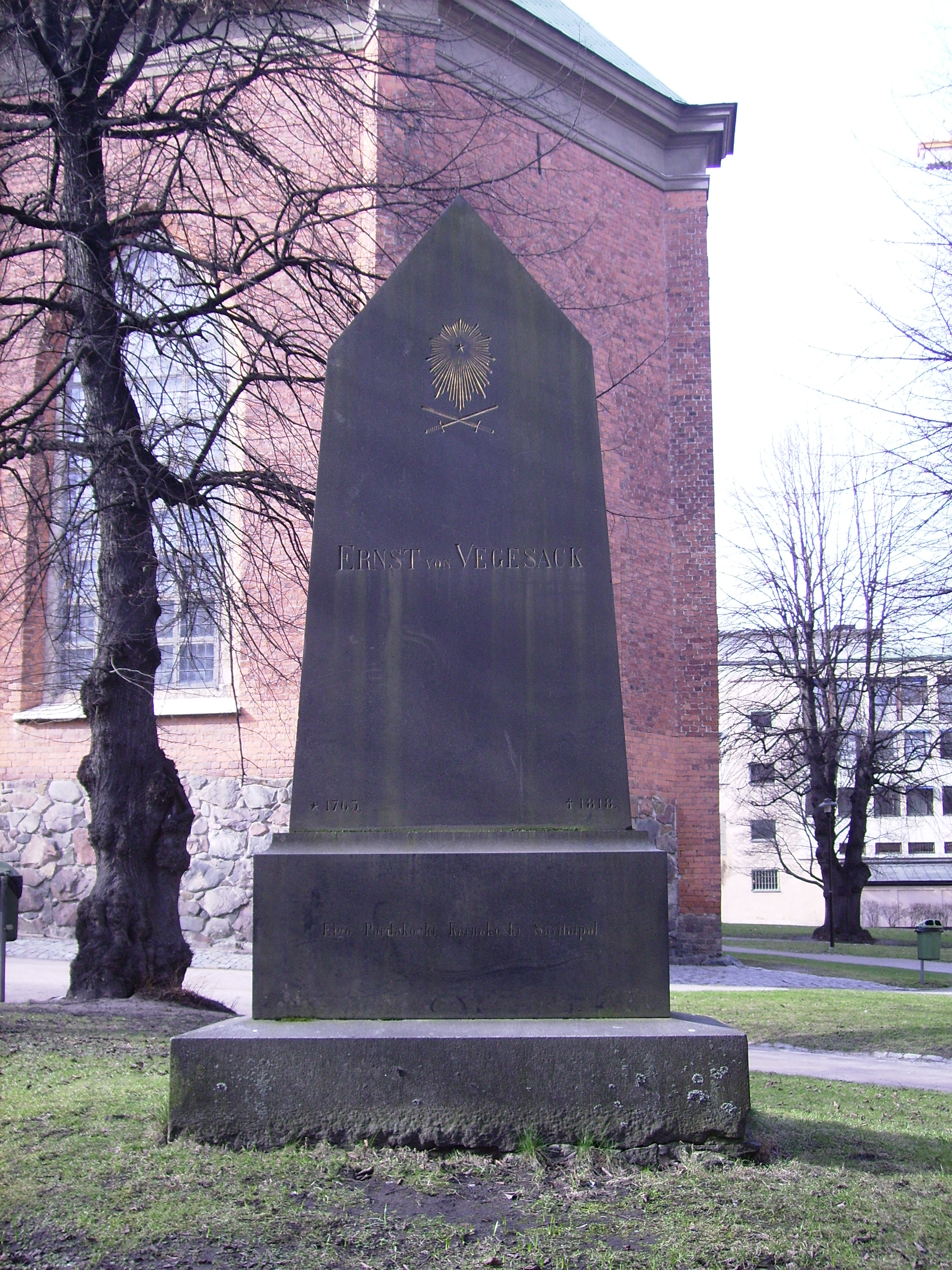 Ernst von Vegesacks grave at Clara kyrka, Stockholm